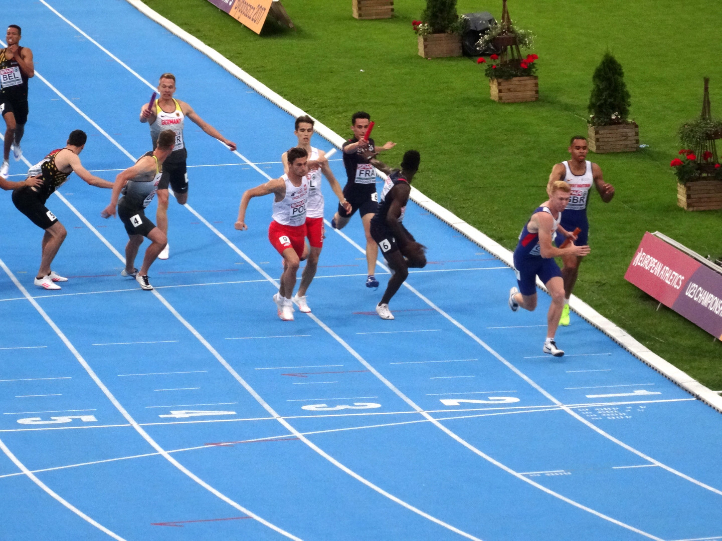 2017 European Athletics U23 Championships, 4x400m relay men final